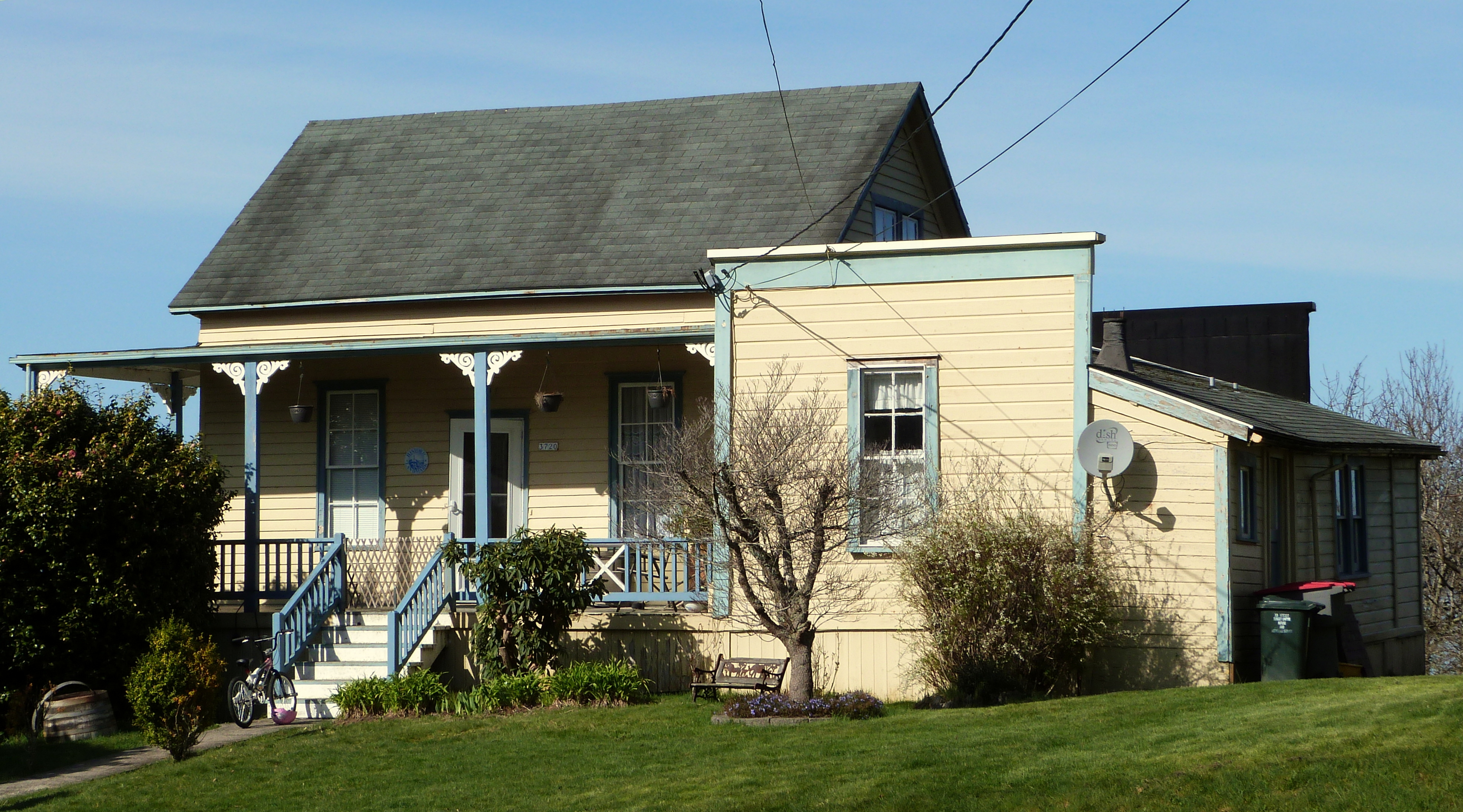 The historic Andrew Young House, built ca. 1875, located at 3720 Duane Street in Astoria, Oregon, United States, is listed on the US National Register of Historic Places.